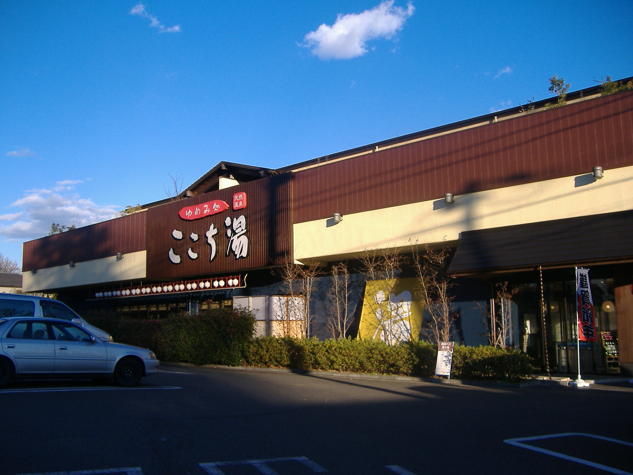 hot spring "Yumemidokoro-kokochiyu" Sagamihara, Japan